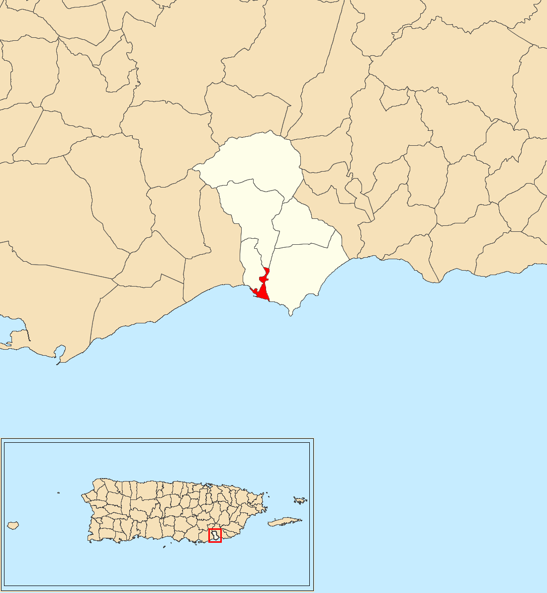 Arroyo barrio-pueblo, Arroyo, Puerto Rico locator map